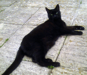 Photo of a Bombay cat (so cute) taken in the west midlands in a town called redditch on the 31st July 2005 at 14:35 pm on a moderately cloudy day with a concord 3045 digital camera and cropped and resized using adobe photoshop CS2